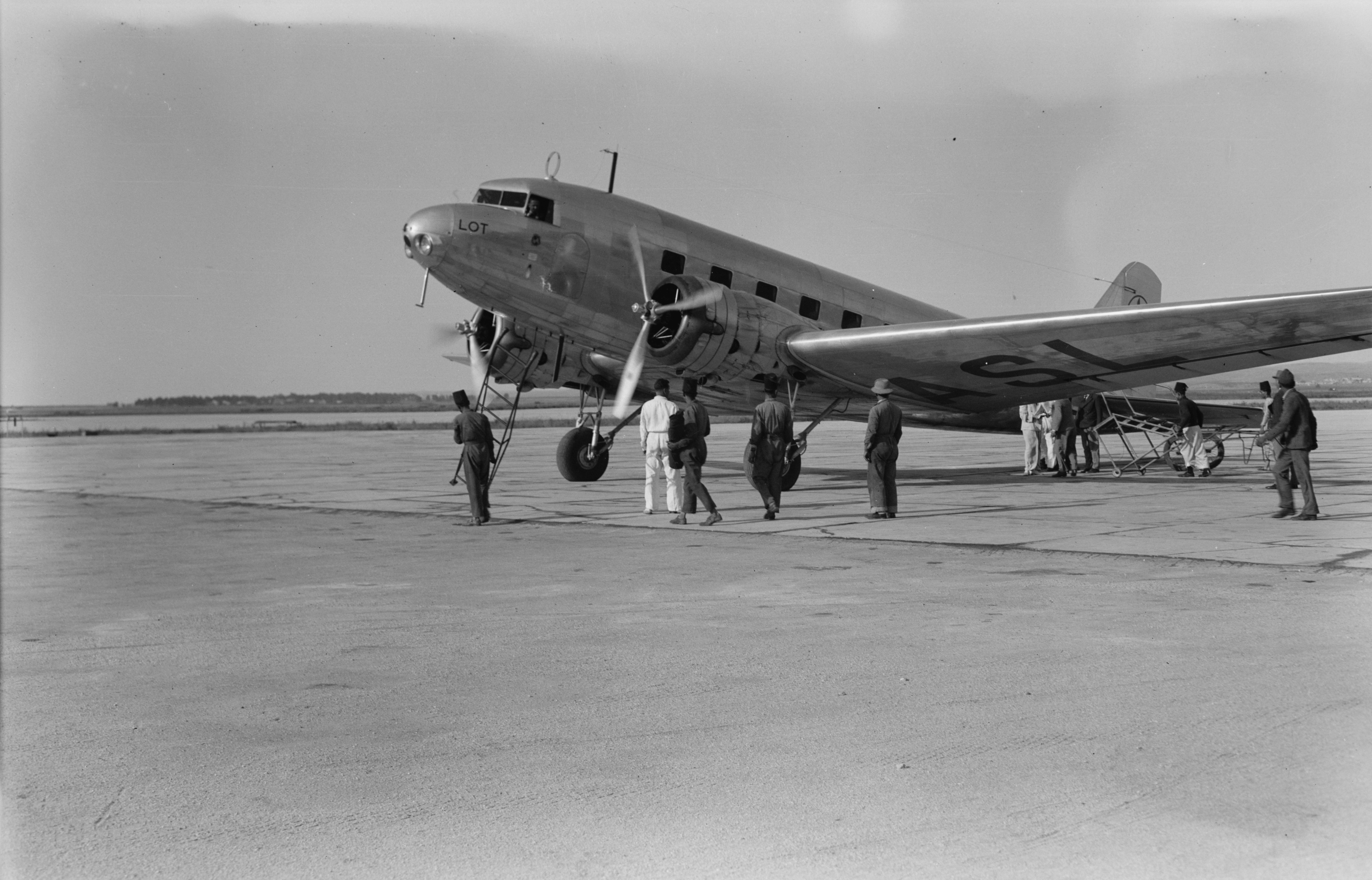 DC-2 of LOT Polish Airlines